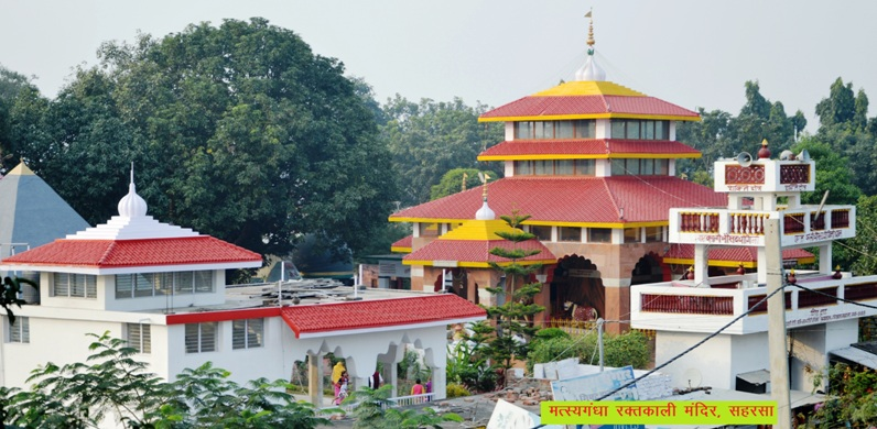 places in saharsa